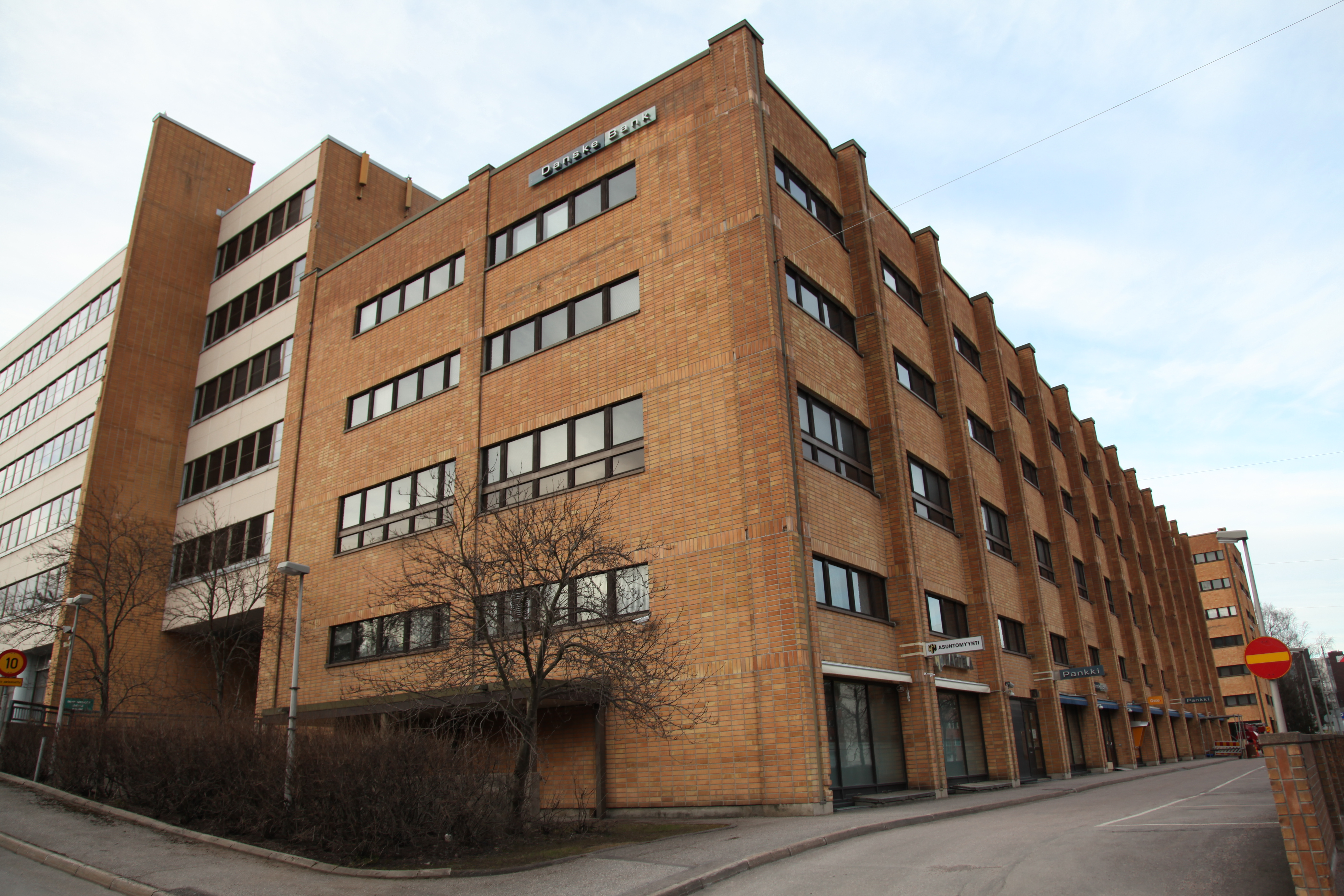 A Danske Bank building in Lassila, Helsinki, Finland.